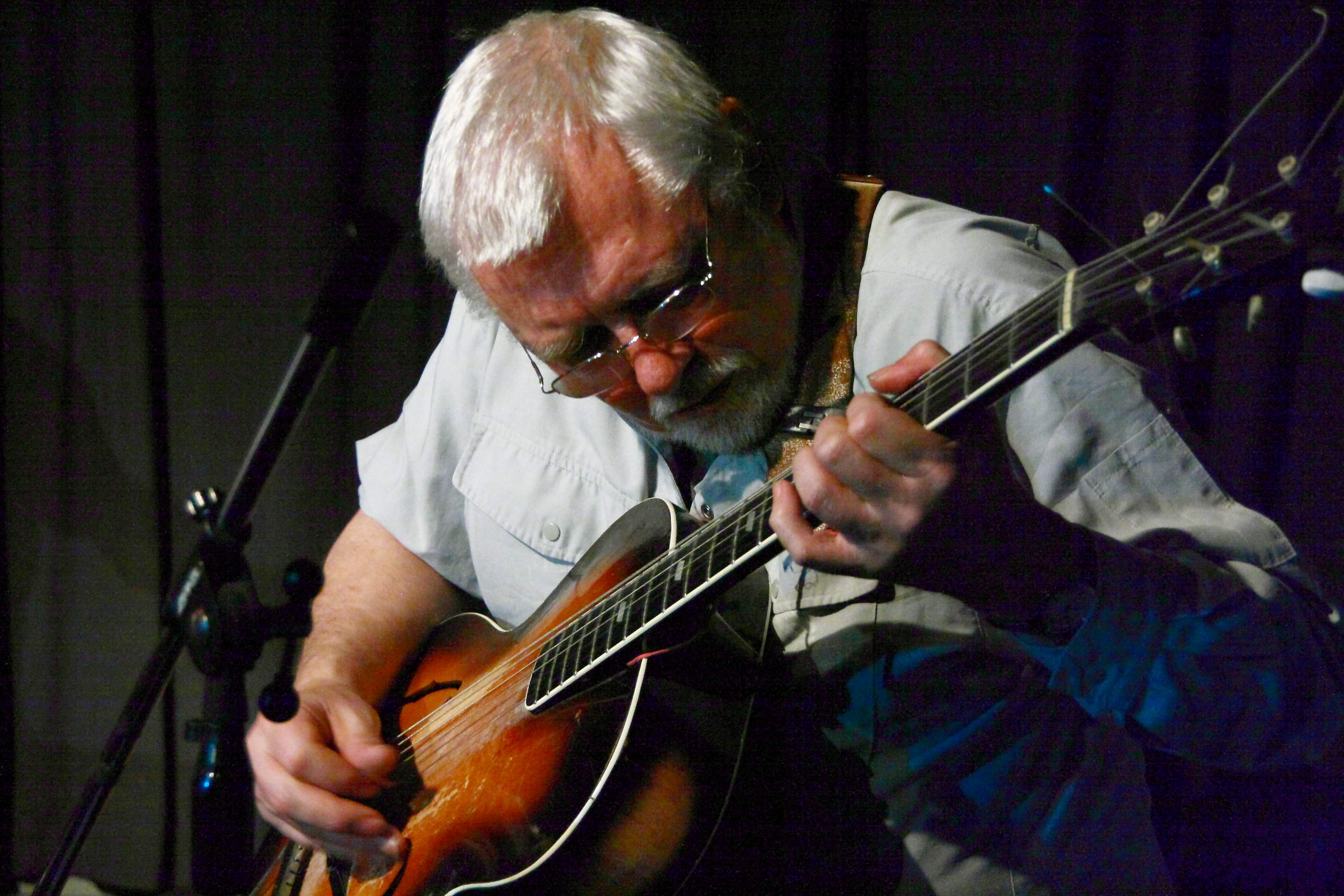 John Russel in concert with Roger Turner and Michel Doneda at Club W71, Weikersheim.